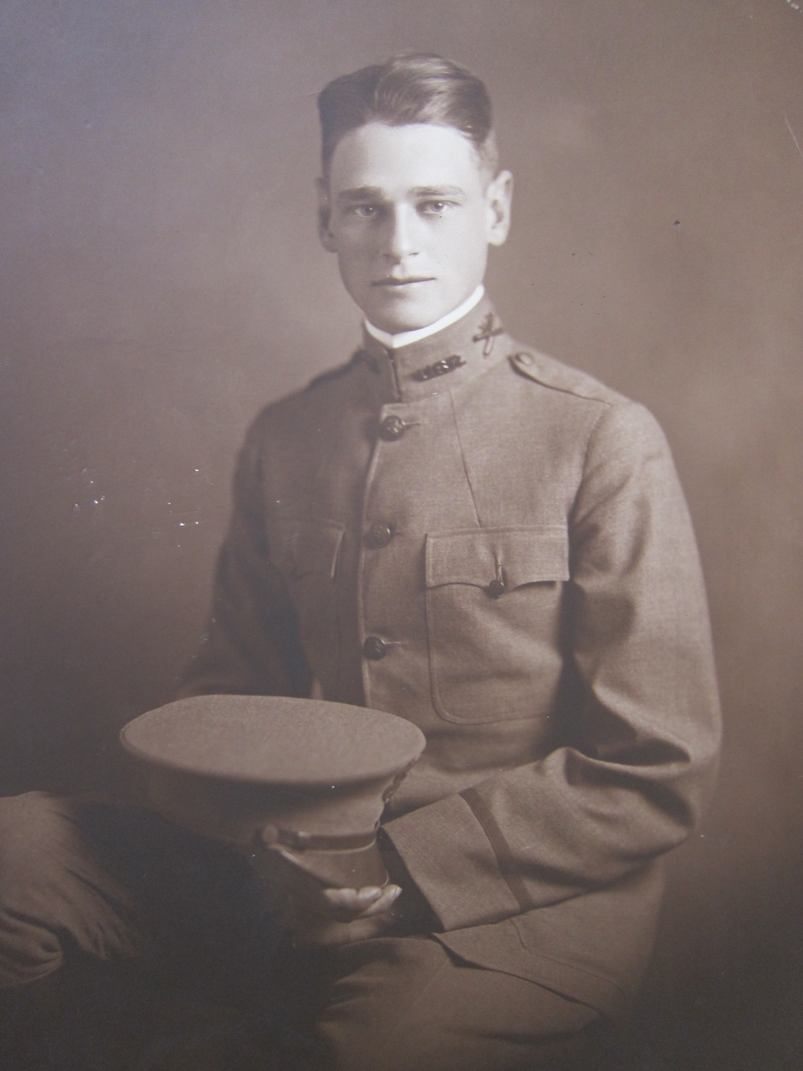 A picture of Donald B. Fullerton, the founder of the Princeton Evangelical Fellowship, is his uniform during WWI